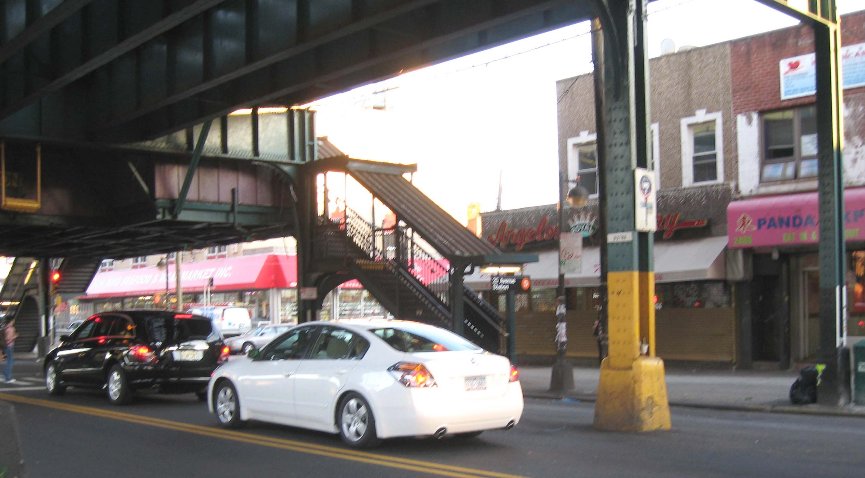 Looking south at western staircase of en:25th Avenue (BMT West End Line) on a sunny late afternoon